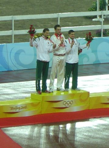 The victory ceremony for the medalists of the men's Modern pentathlon at the 2008 Summer Olympics. From the left: Edvinas Krungolcas, Andrey Moiseyev, Andrejus Zadneprovskis